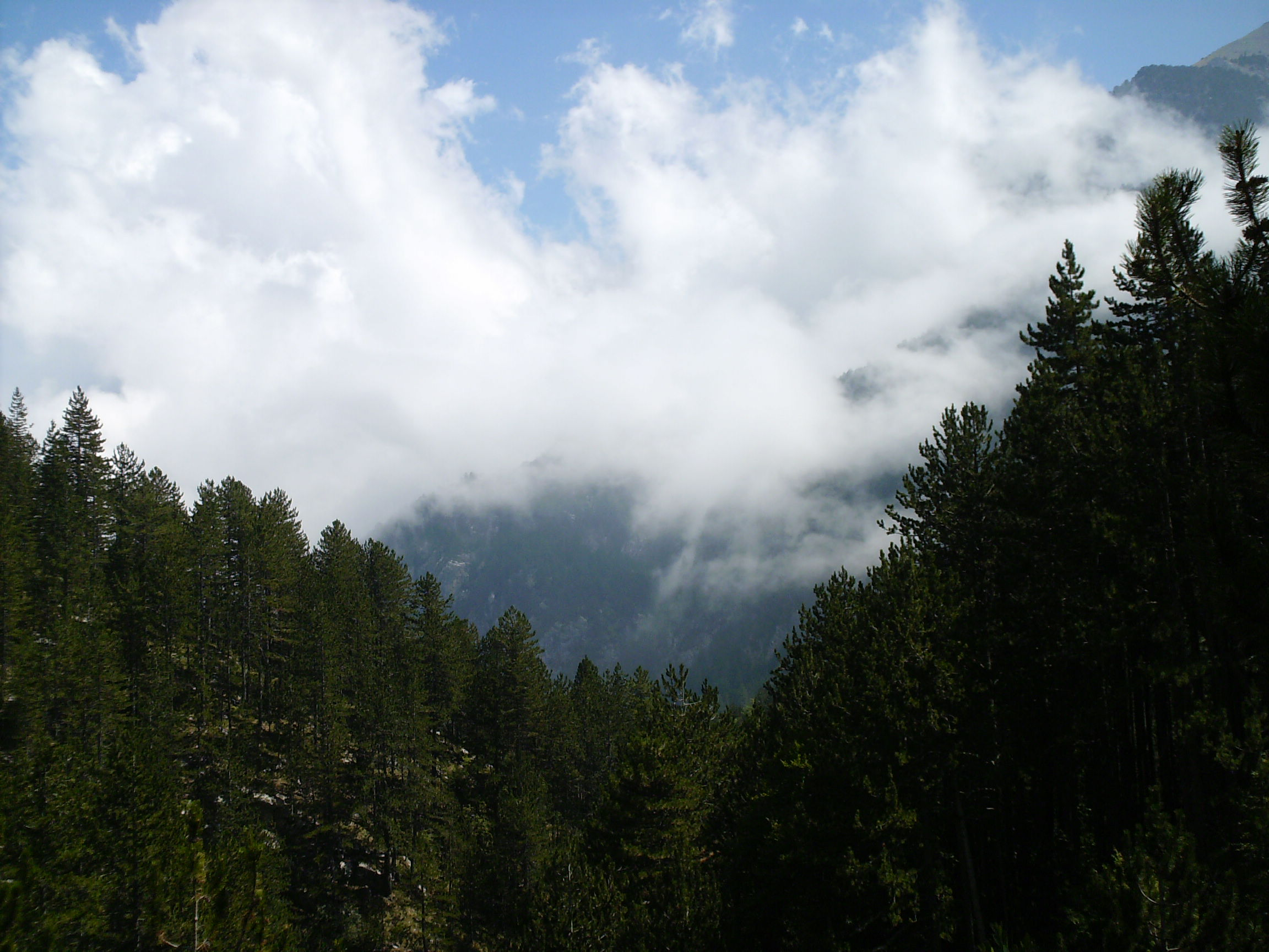 This is a photography of Natura 2000 protected area with ID GR1250001